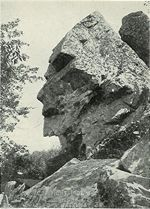 1902 postcard photo showing Profile Rock; scanned from a private collection.